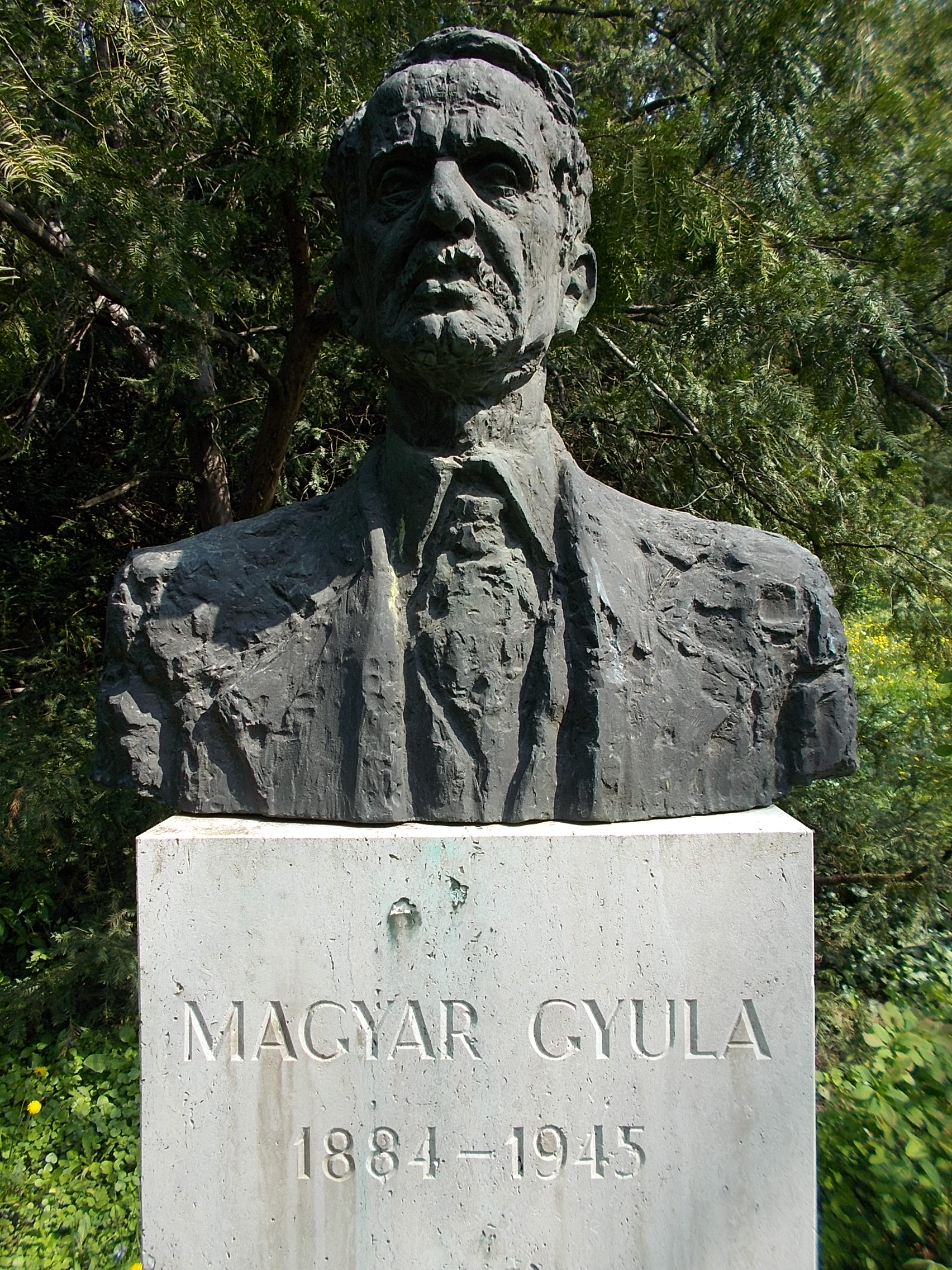 Bust of Gyula Magyar by István Paál, 1984 in the Upper garden of Buda Arboreta. Bronze on limestone base. Gyula Magyar was the " last Hungarian gardener polyhistor". - Budapest Faculty of Horticultural Science of University of Gödöllő. - Budapest District XI., Hungary.